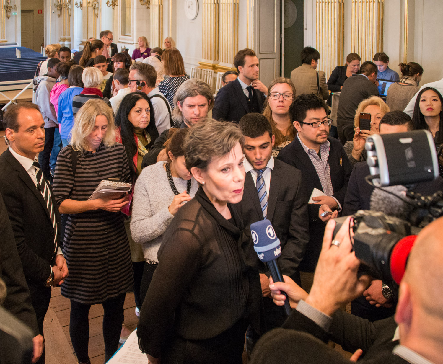 The Nobel Prize in Literature announced in Stockholm October 8, 2015 by the Permanent Secretary Sara Danius.